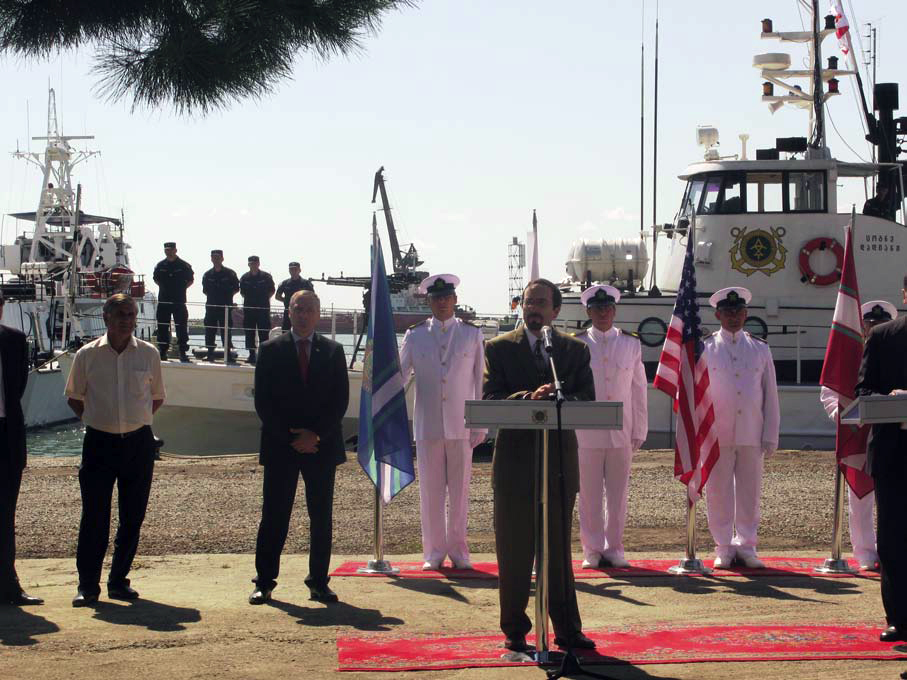 U.S. Ambassador John Bass speaks during a groundbreaking ceremony Aug. 25, 2011, for a boat repair shop at the Poti Coast Guard Dock to be donated to the Georgia Coast Guard Police. The project is being financed through the Georgia Export Control and Related Border Security program, and construction is being managed by the USACE Europe District. (U.S. Army Corps of Engineers photo)